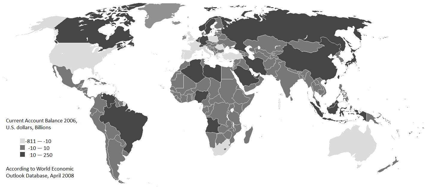 Balance of payments by country as of 2006